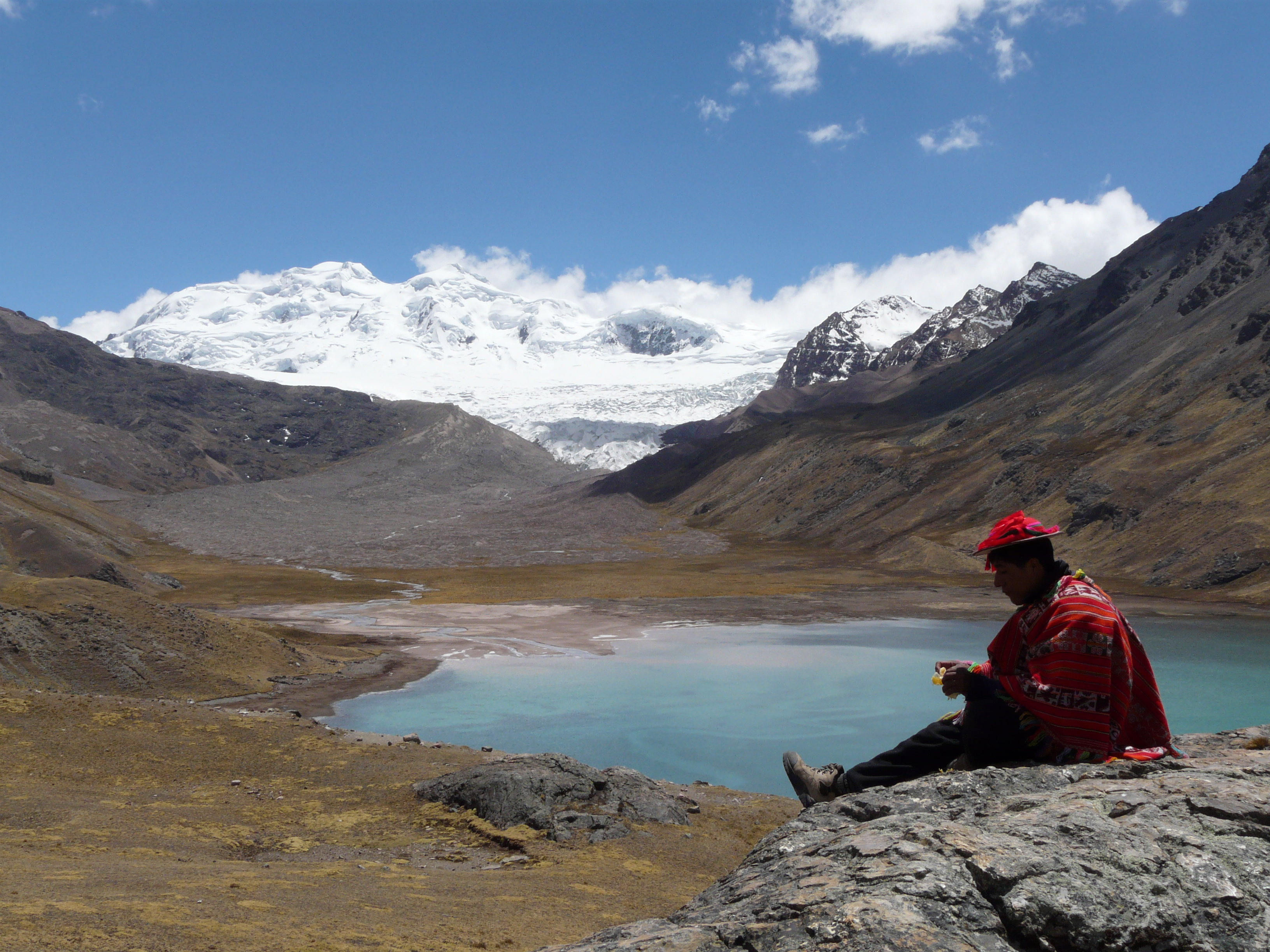 Picture of Sibinacocha lake (alt. 5000m), Peru, Ausangate mountains.